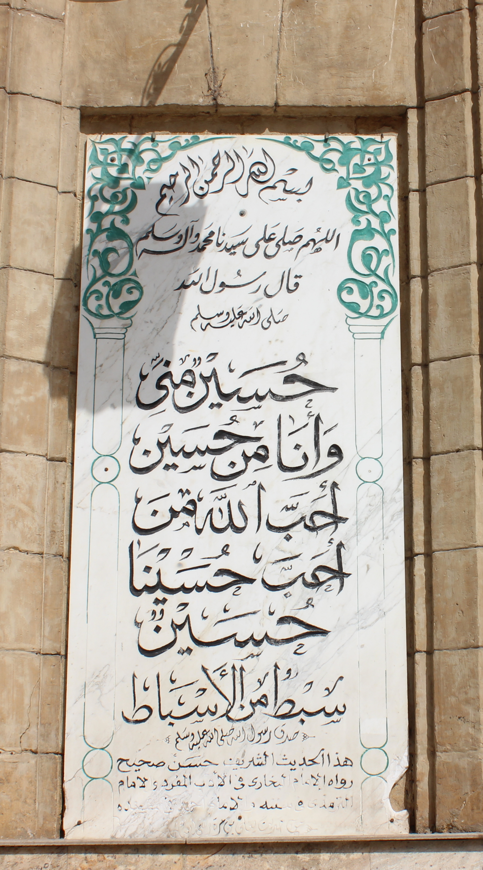 Imam Hussein Hadith inscription, Al-Hussein Mosque, Cairo.